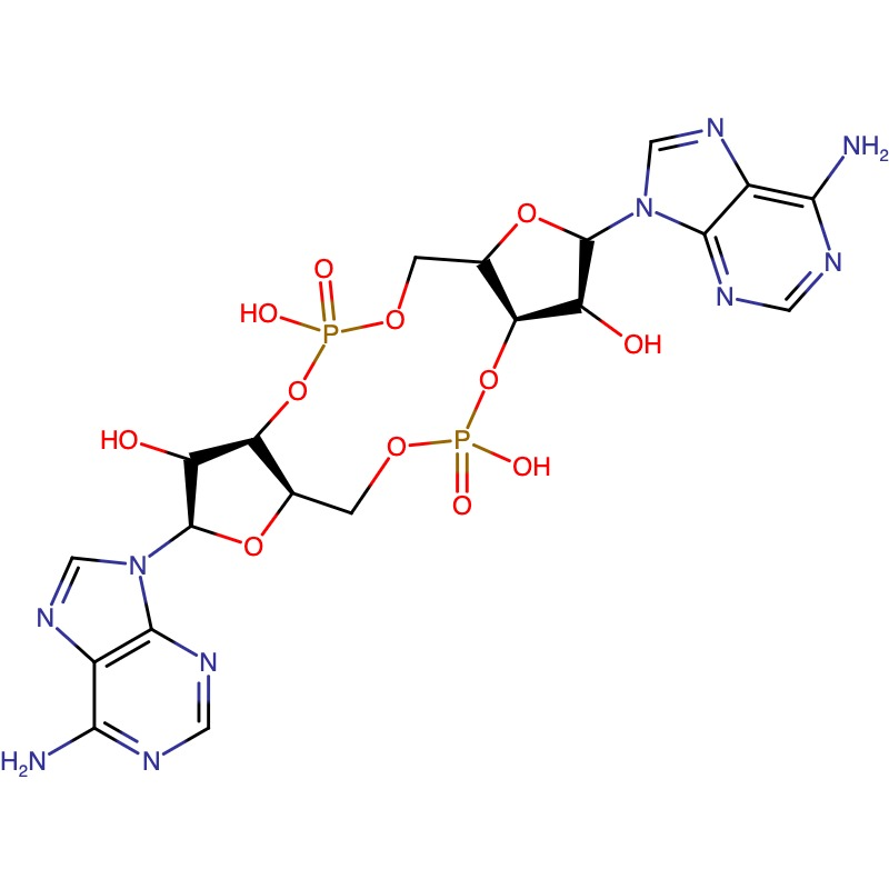 Detailed structure of cyclic di-adenosine monophosphate